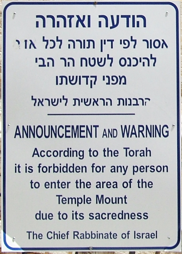 Sign near entrance to the Temple Mount in Jerusalem warning Jews & non-Jews alike against entering.